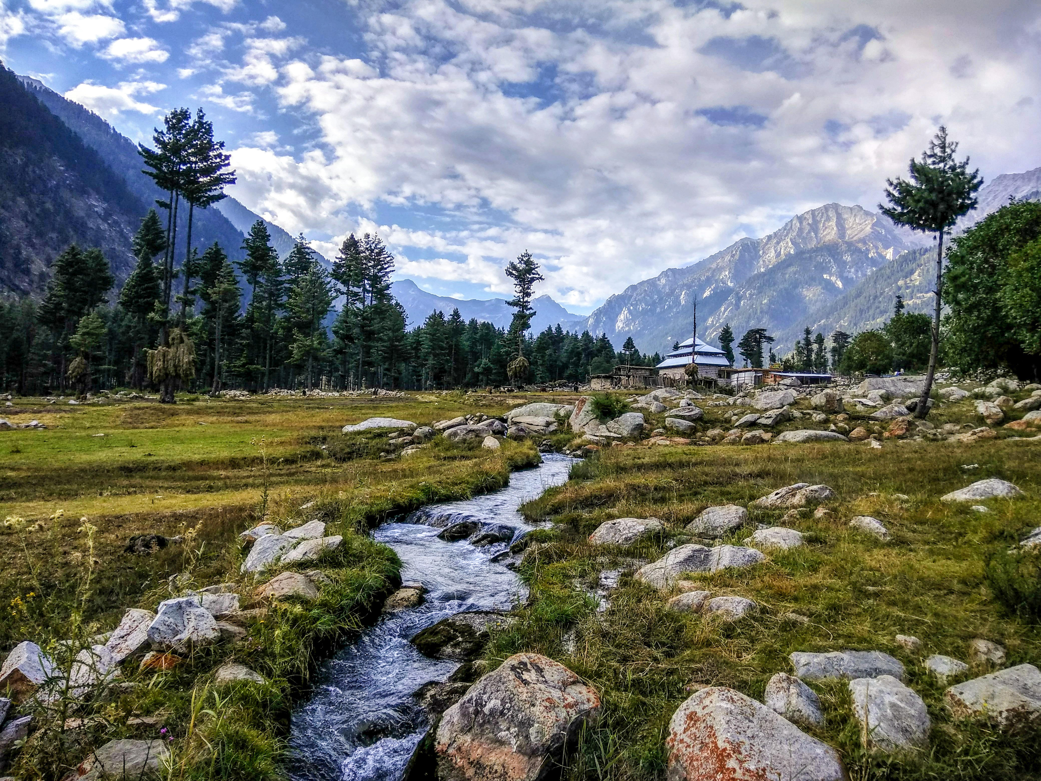 An evening stroll in Kumrat valley, Upper Dir - Pakistan.